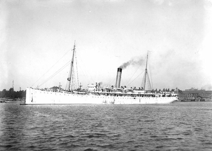 USS Solace (AH-2) off the Mare Island Navy Yard Removed caption read: Photo # NH 43624 USS Solace, 1 July 1899